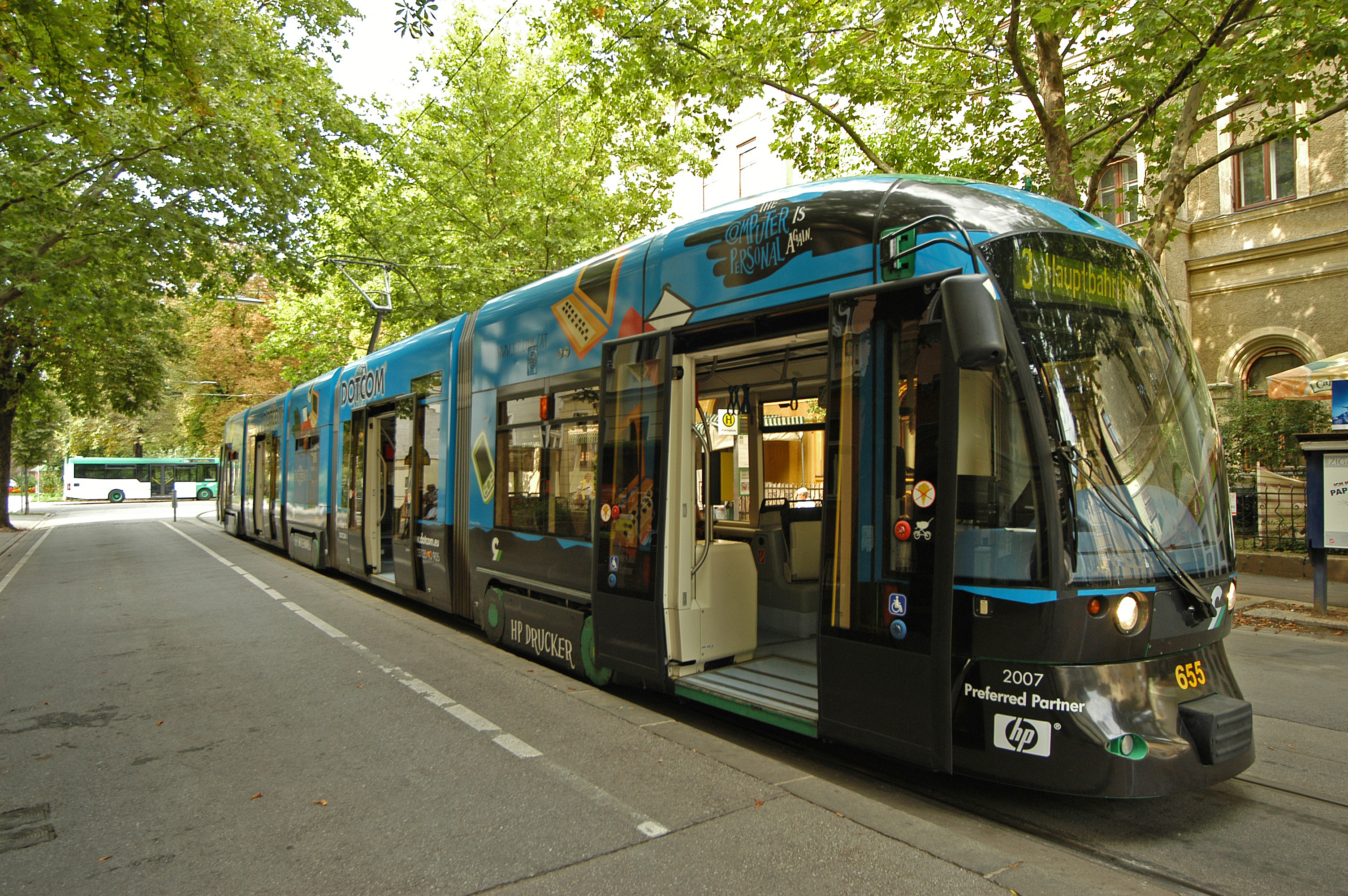 Tram stop Krenngasse Please report references to kulacgmx.at.